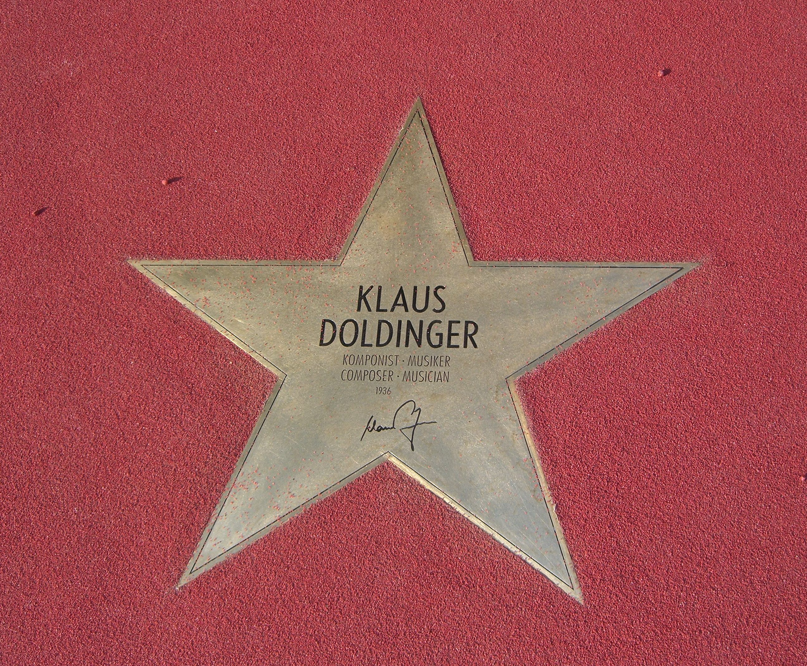 Star of Klaus Doldinger at "Boulevard der Stars" in Berlin.